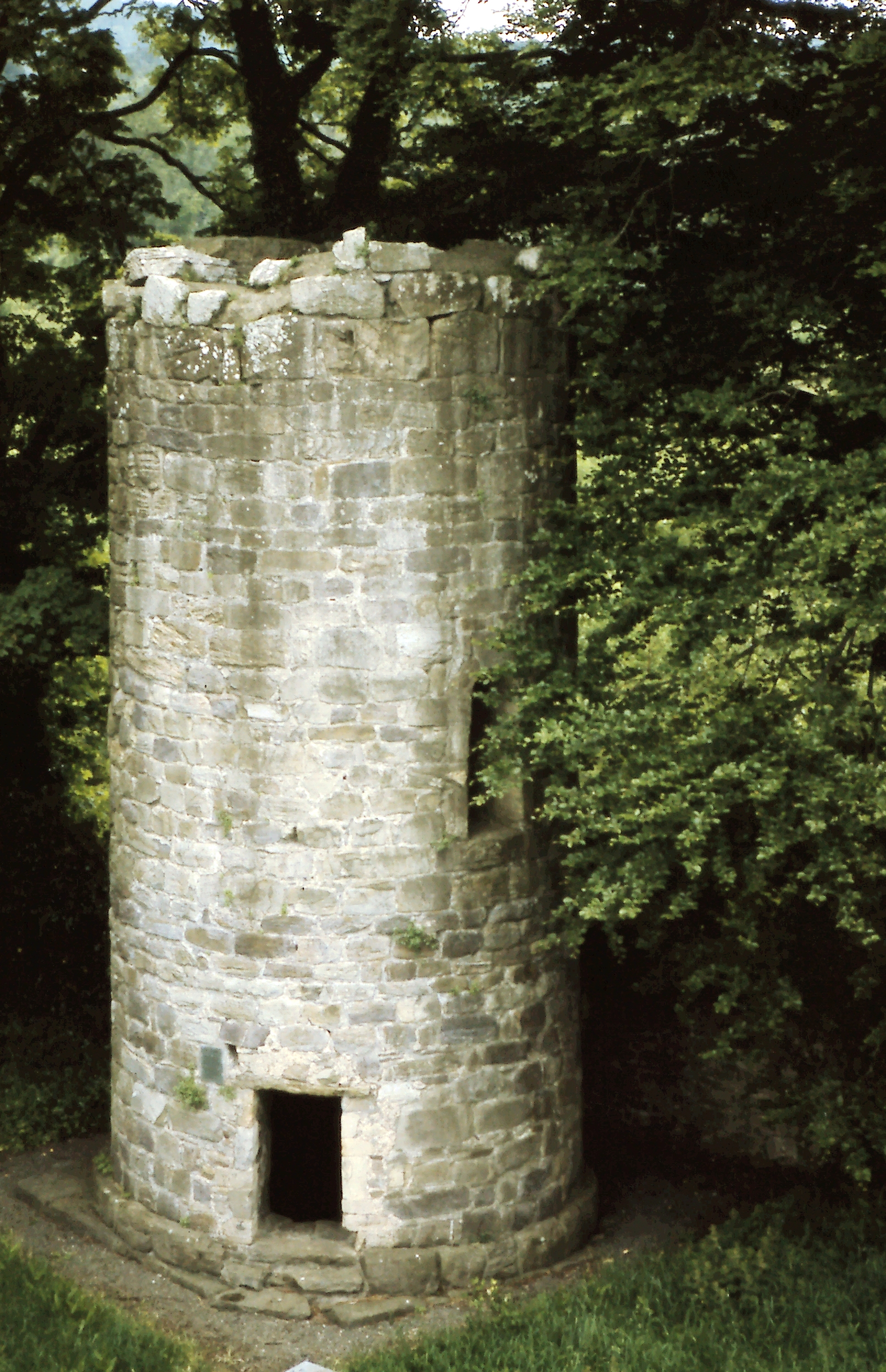 Aghaviller Roundtower